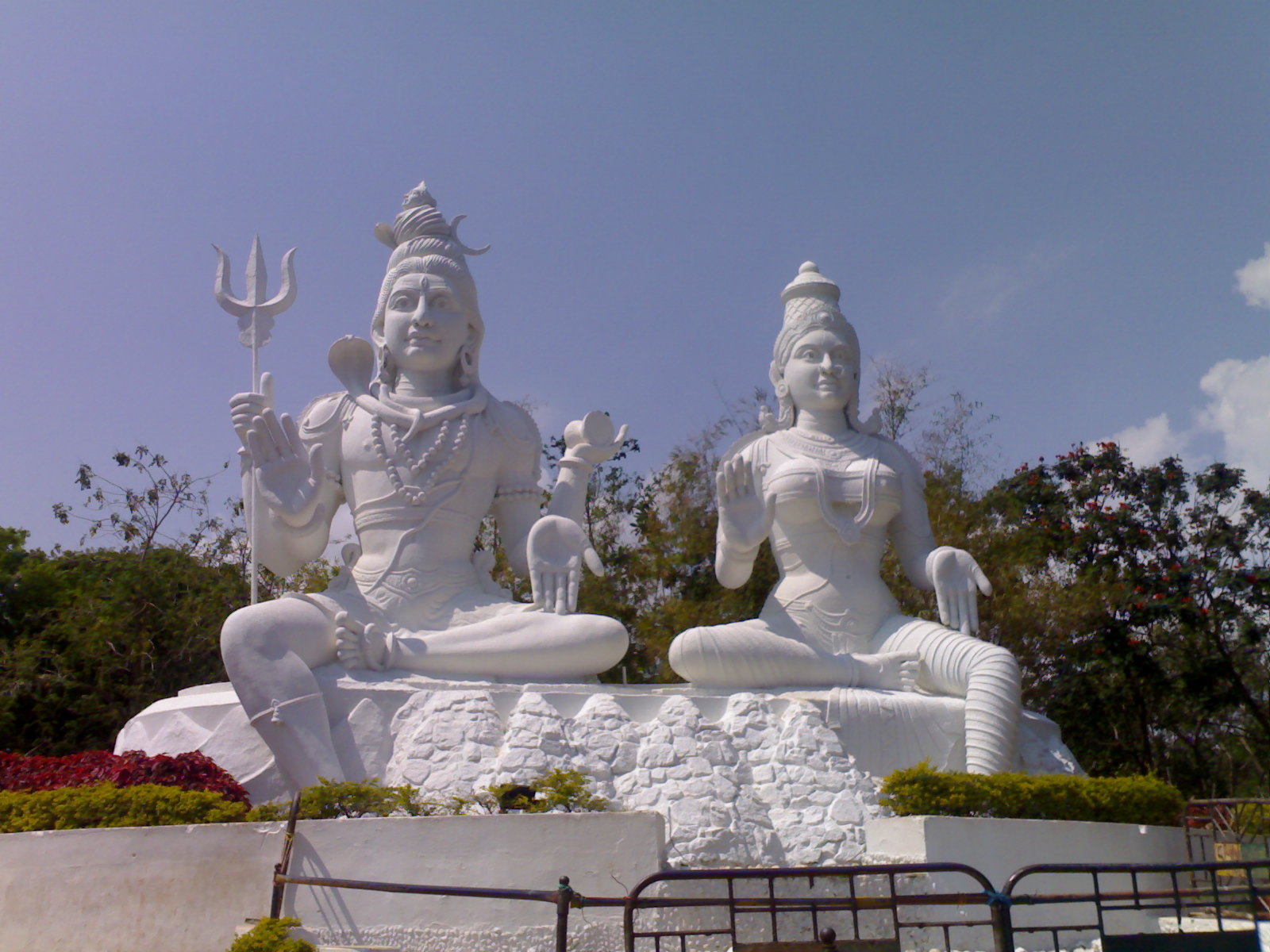 Kailash Giri, Visakhapatnam - In pic statue of Lord Shiva & Parvati, is a major tourist attraction.